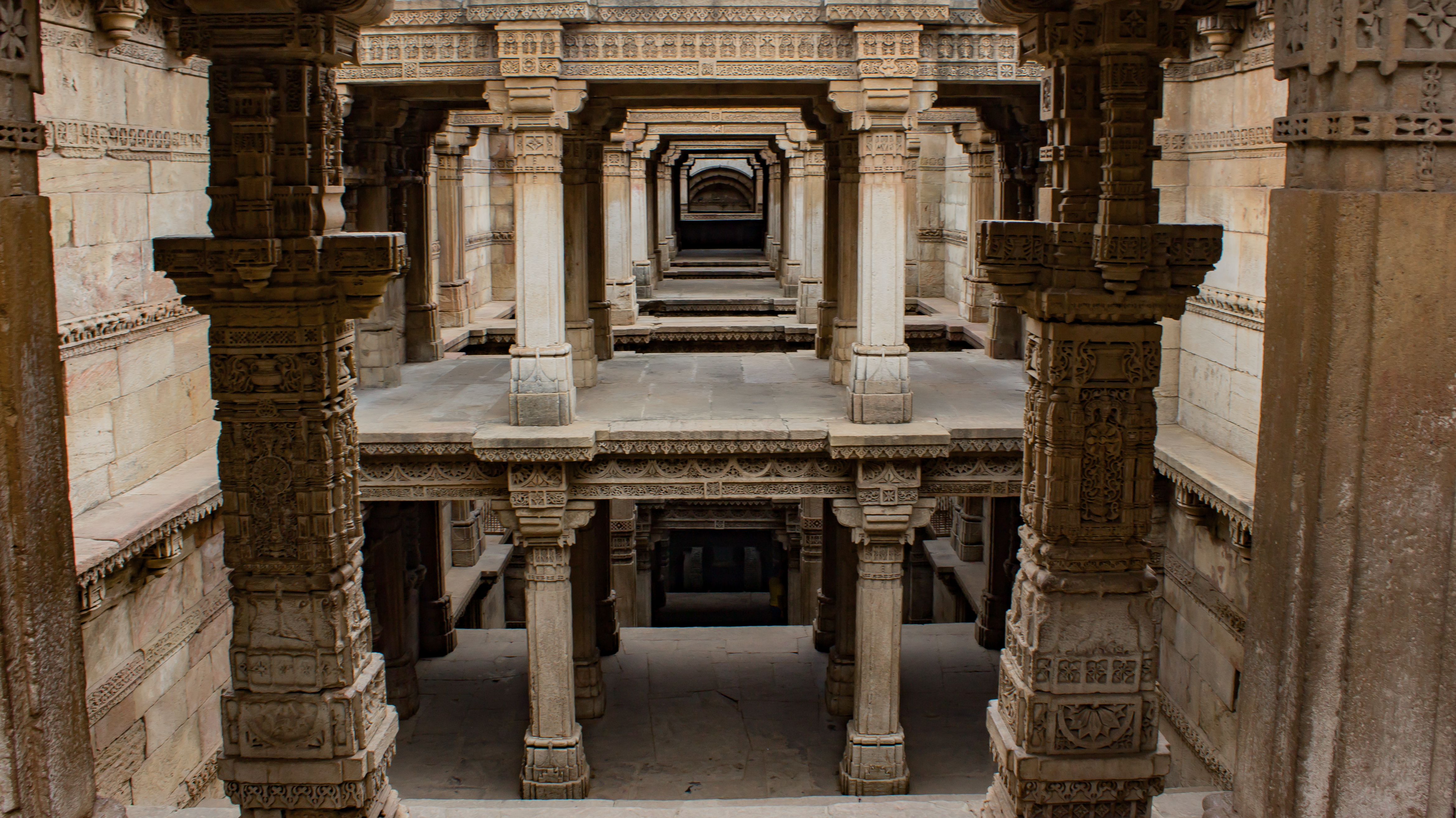 Rudabai Stepwell, also called Adalaj Stepweel has history of its own kind dating back to 15th Century where you can enjoy fine coupled art of Hindu & Islamic culture.